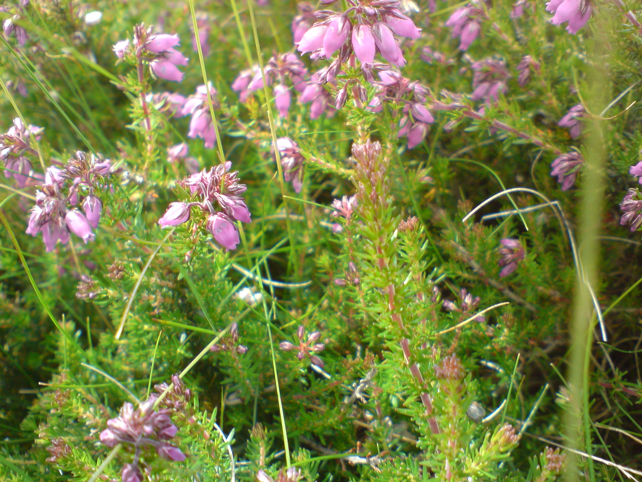 A picture taken on Arthur's Seat in mid summer